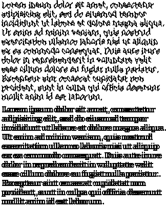 Illustration of how sufferers of Irlen syndrome may see text